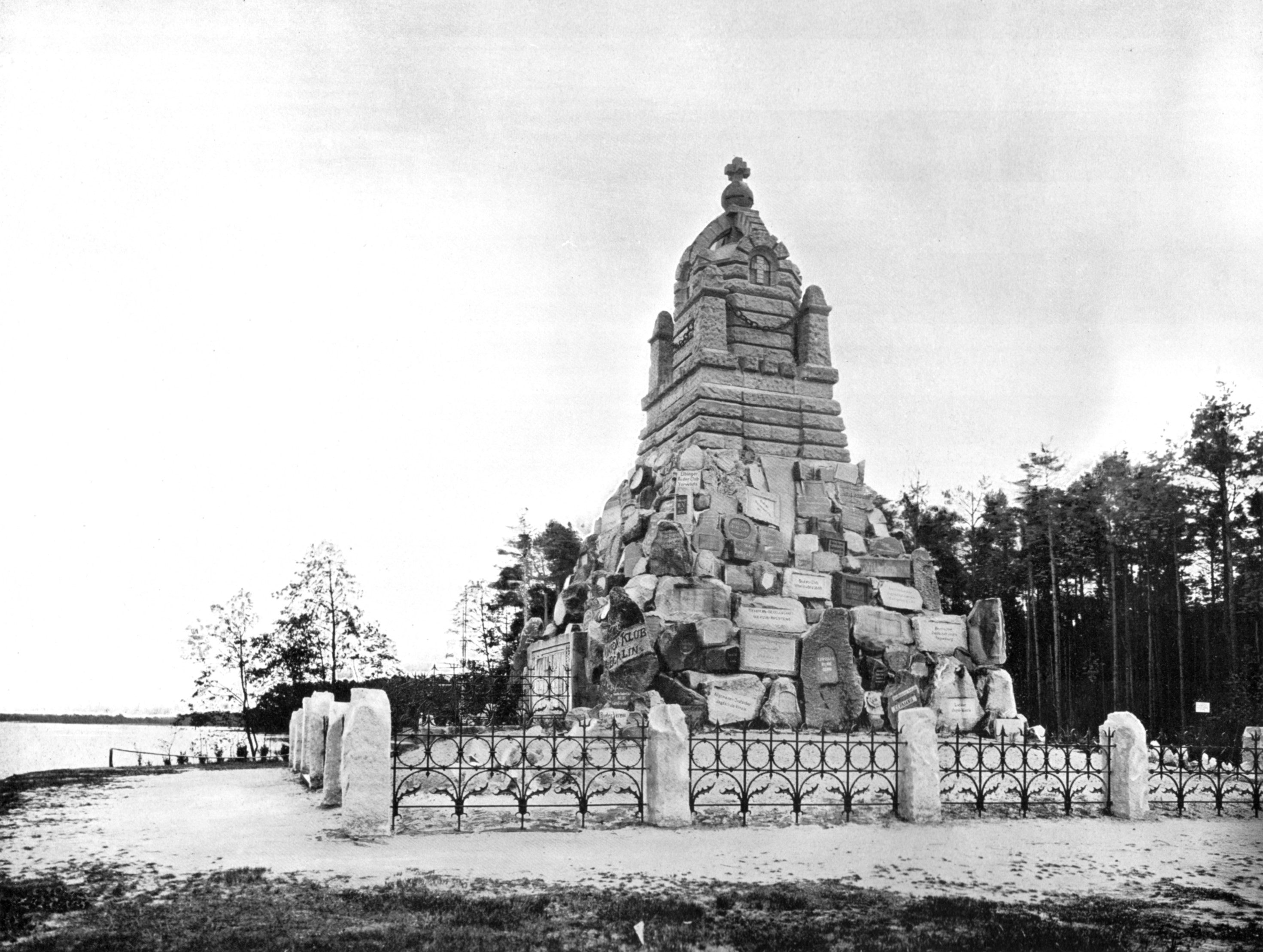 The sports memorial of Grünau, Berlin, which was demolished in 1973 by the East Berlin magistrate.